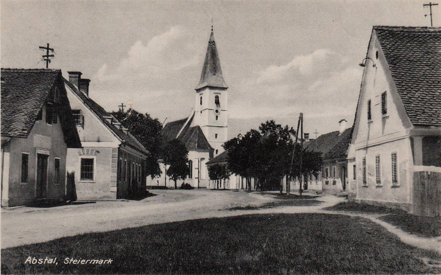 Postcard of Apače.